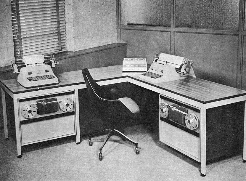 Photo of the 1960 computer Monrobot Mark XI Other information From the 1961 Ballistics Research Lab report on computers